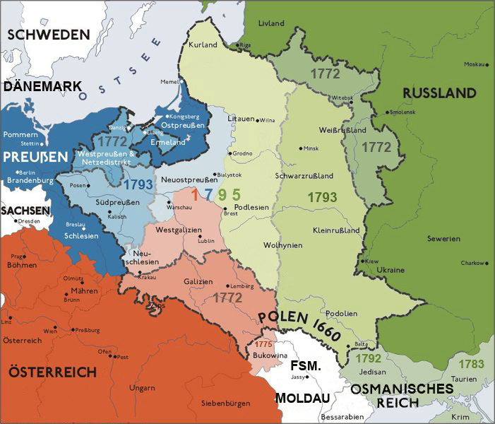 Map of the Partitions of Poland 1772-95